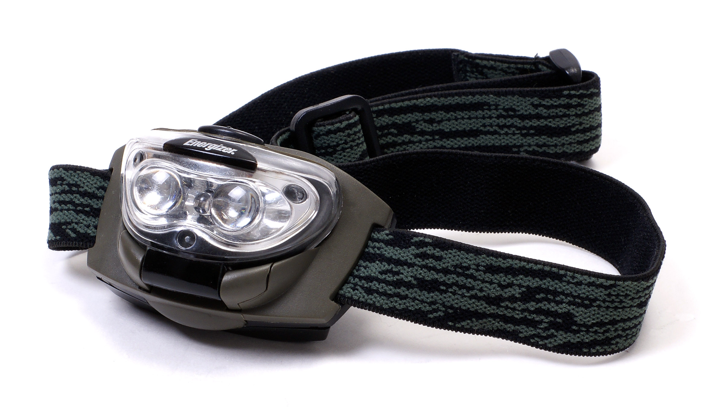 An LED headlamp made by energizer. Runs on AAA batteries.